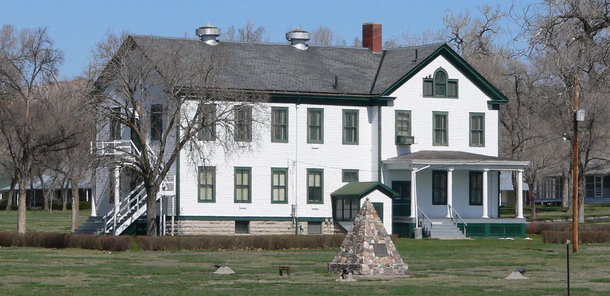 1905 post headquarters at Fort Robinson near Crawford, Nebraska.